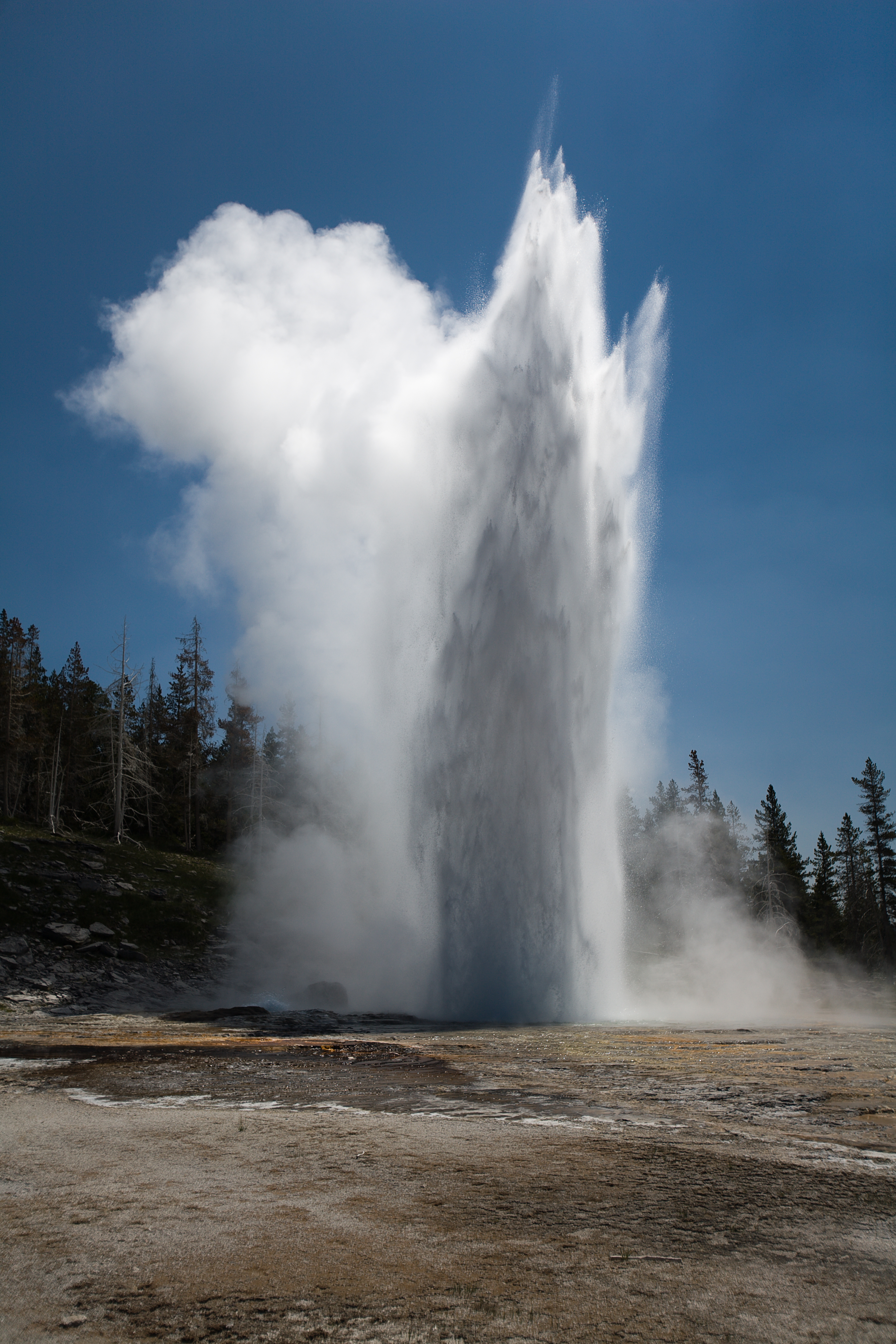 The Grand Geyser. The tallest predictable geyser in Yellowstone Park, The Grand Geyser, erupting in July 2008.